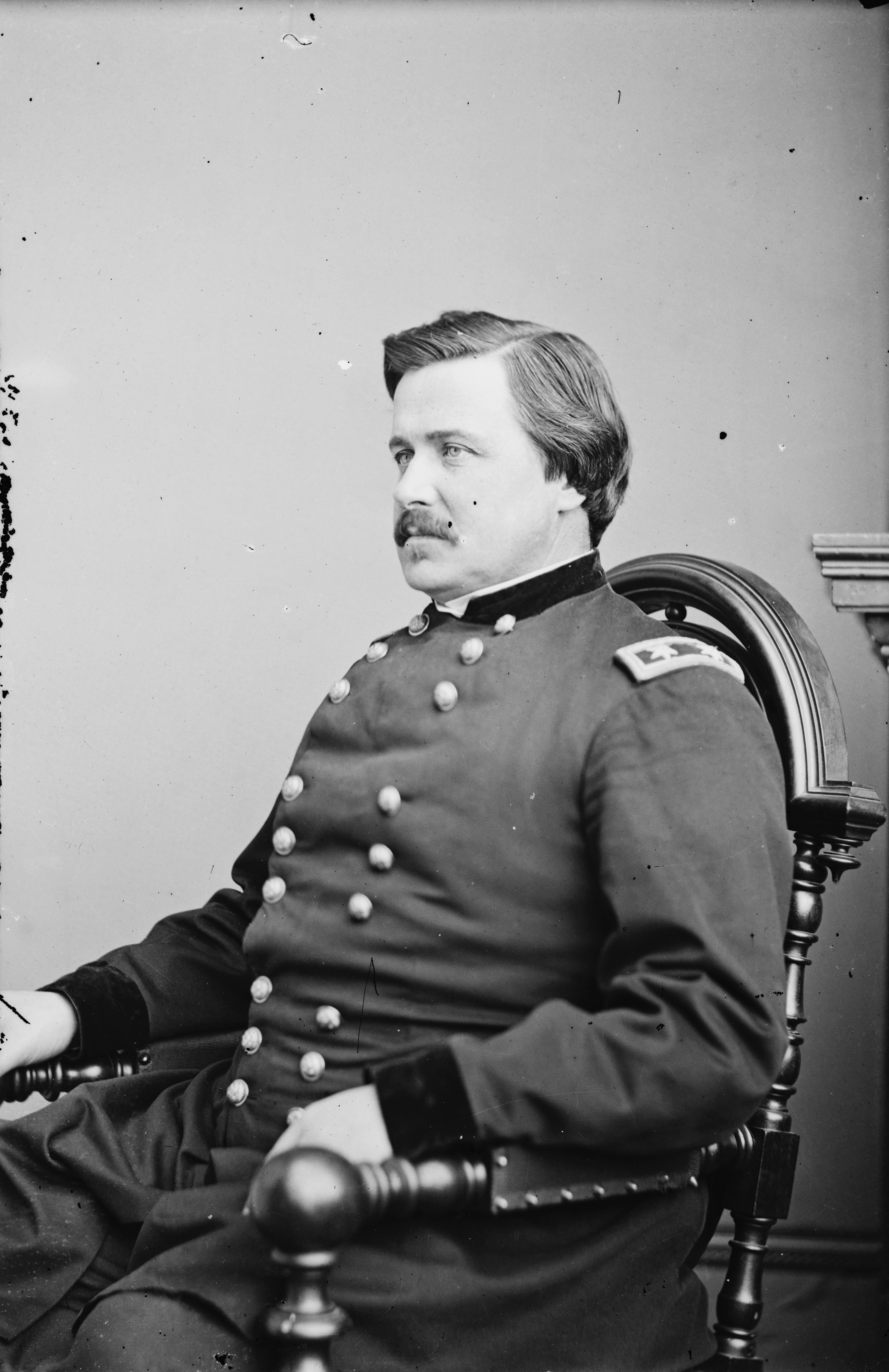 Portrait of Maj. Gen. Alexander McD. McCook, officer of the Federal Army